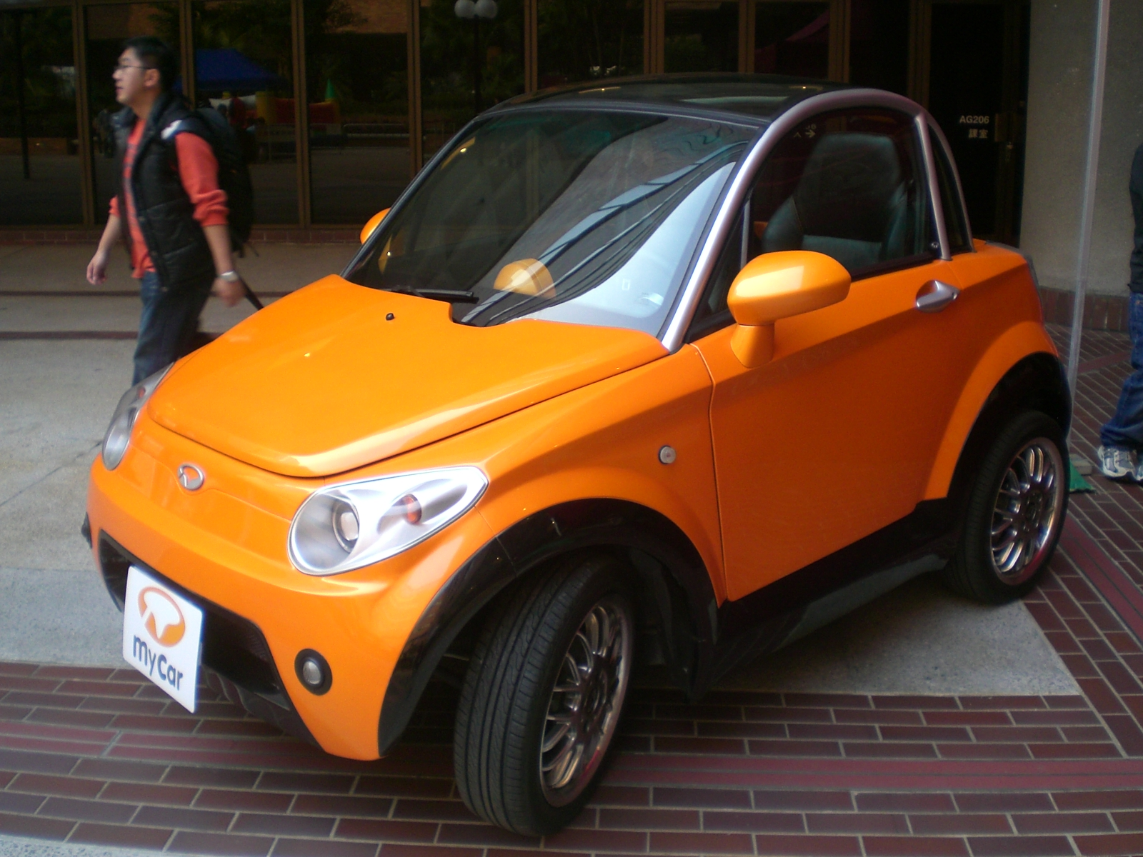 MyCar